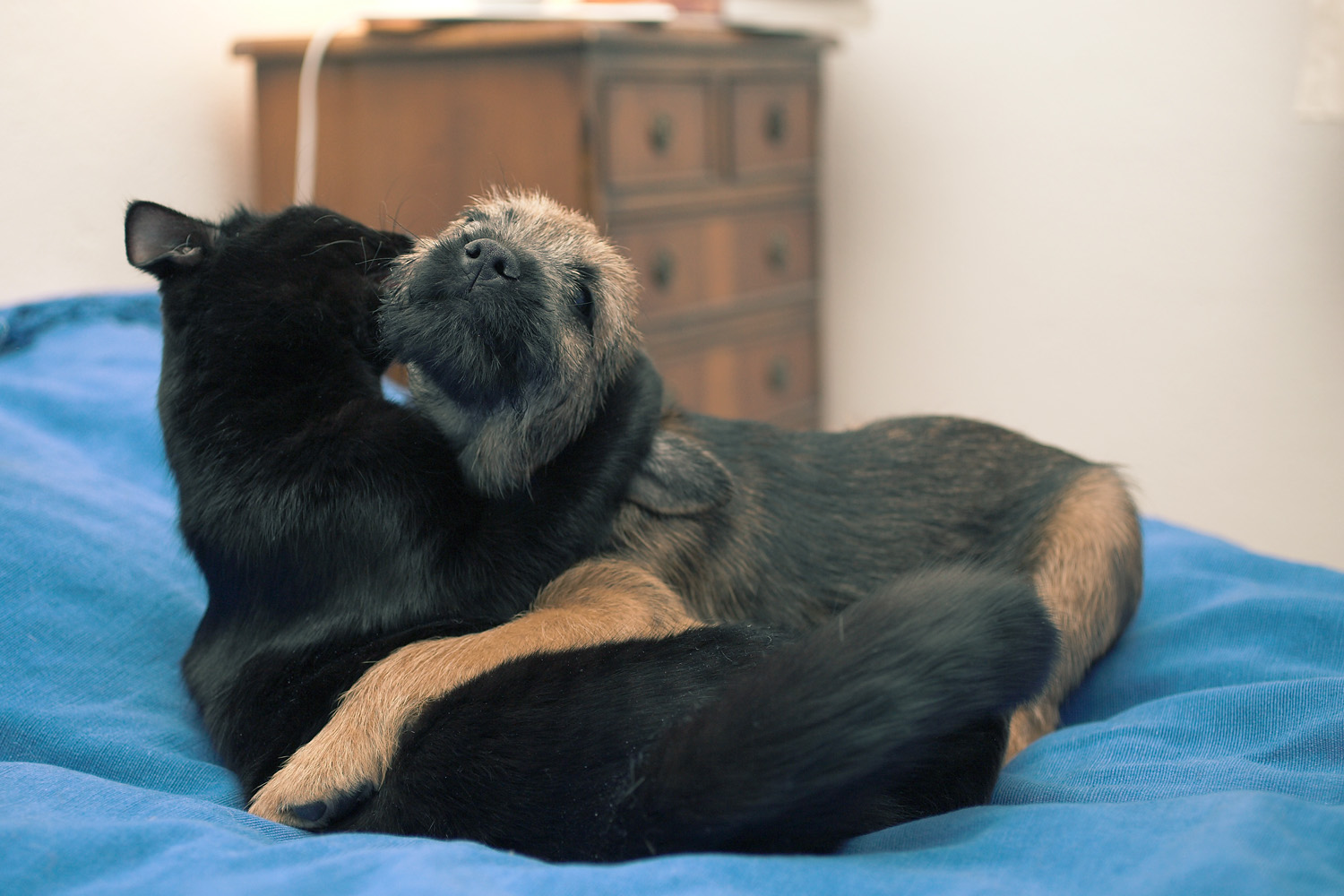 What was that about cats and dogs again?